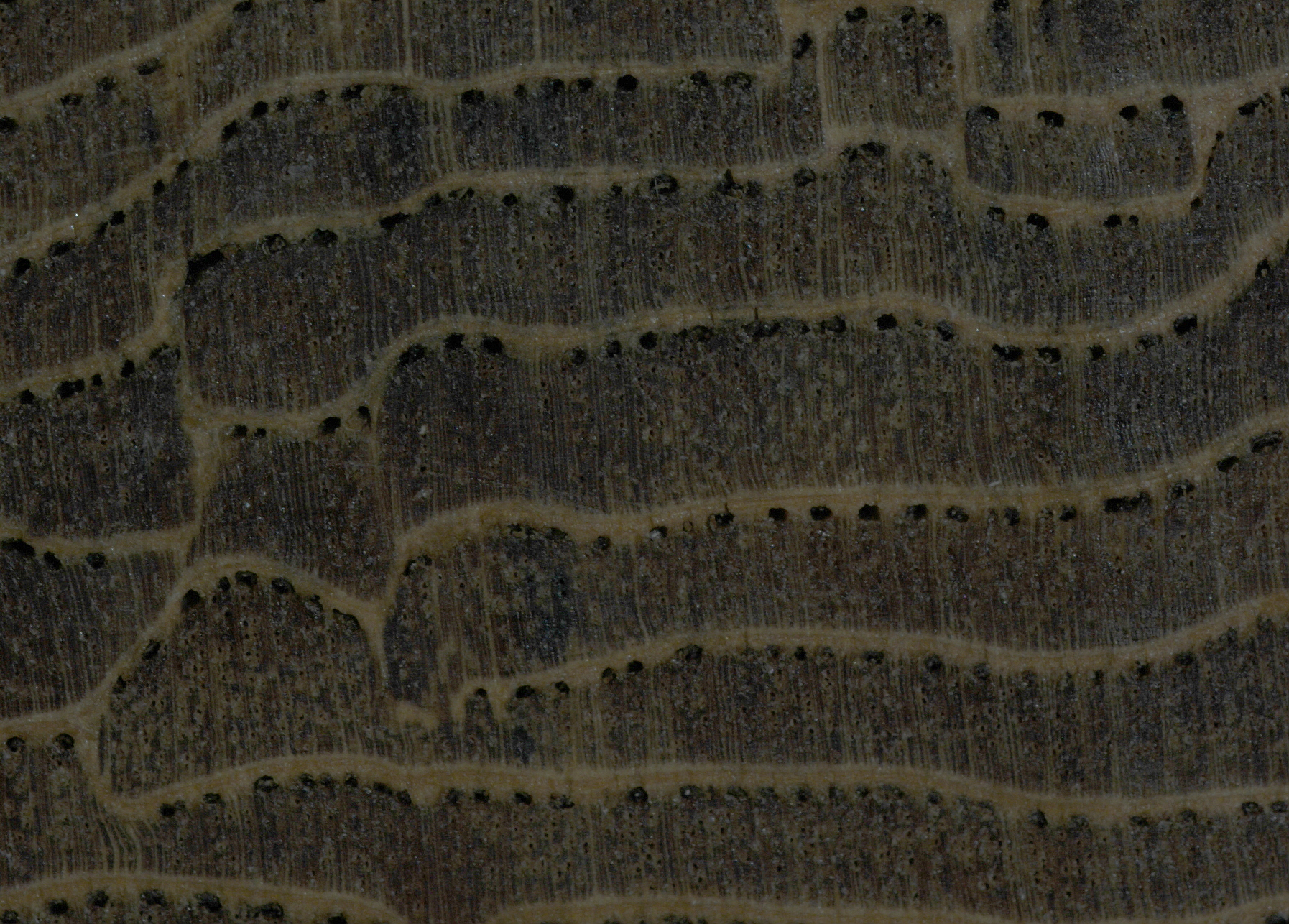 Detail of a stem cross-section of the mangrove tree Avicennia germinans (Acanthaceae-Avicennioideae), felled in 1997 on Ajuruteua Peninsula, Bragança, Pará, Brazil